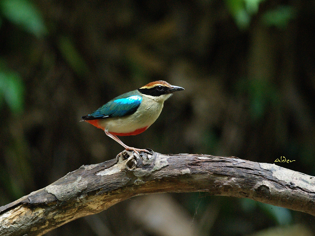 Summer visitor of Taiwan.